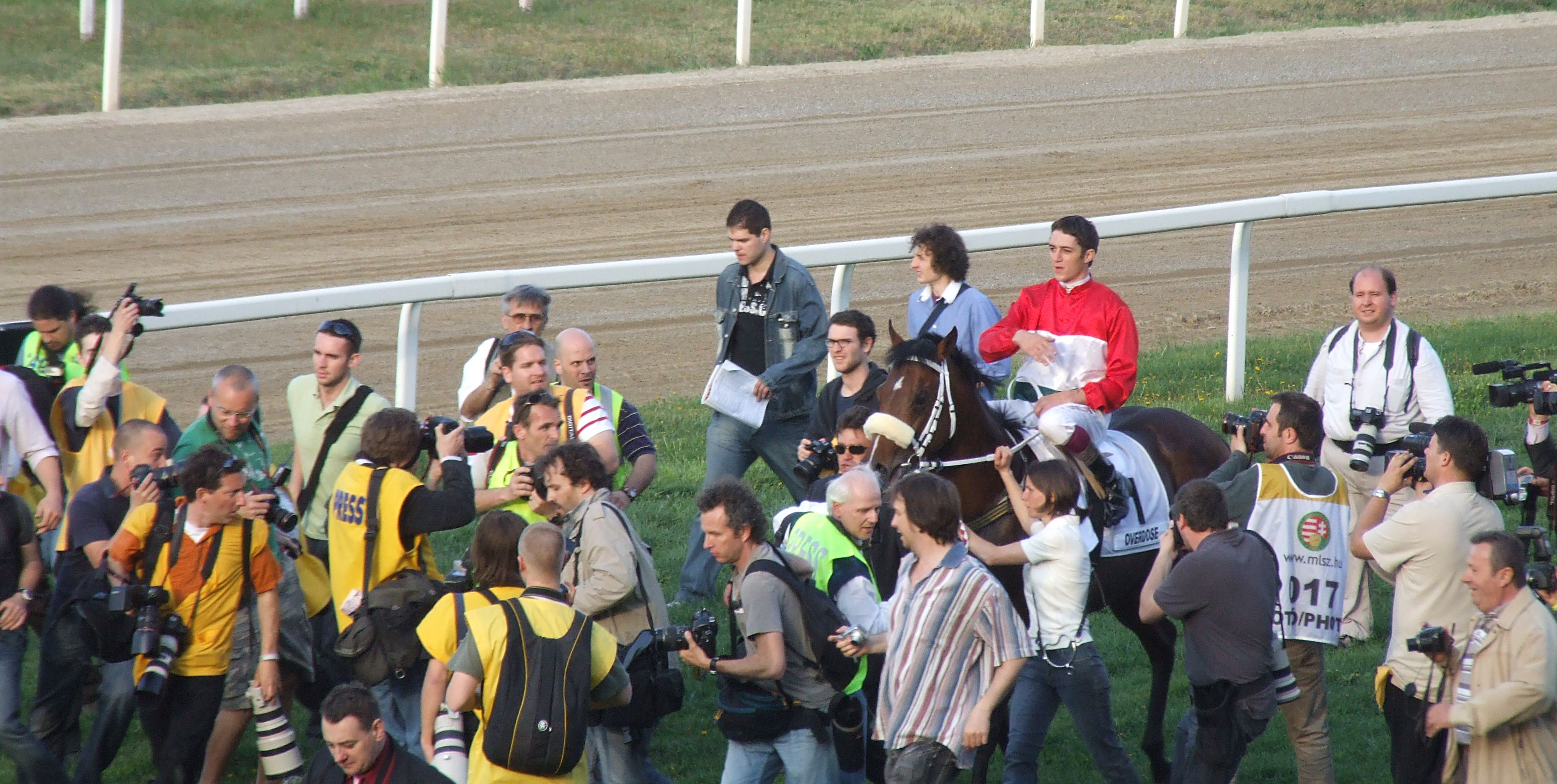 Overdose after the twelfth win.